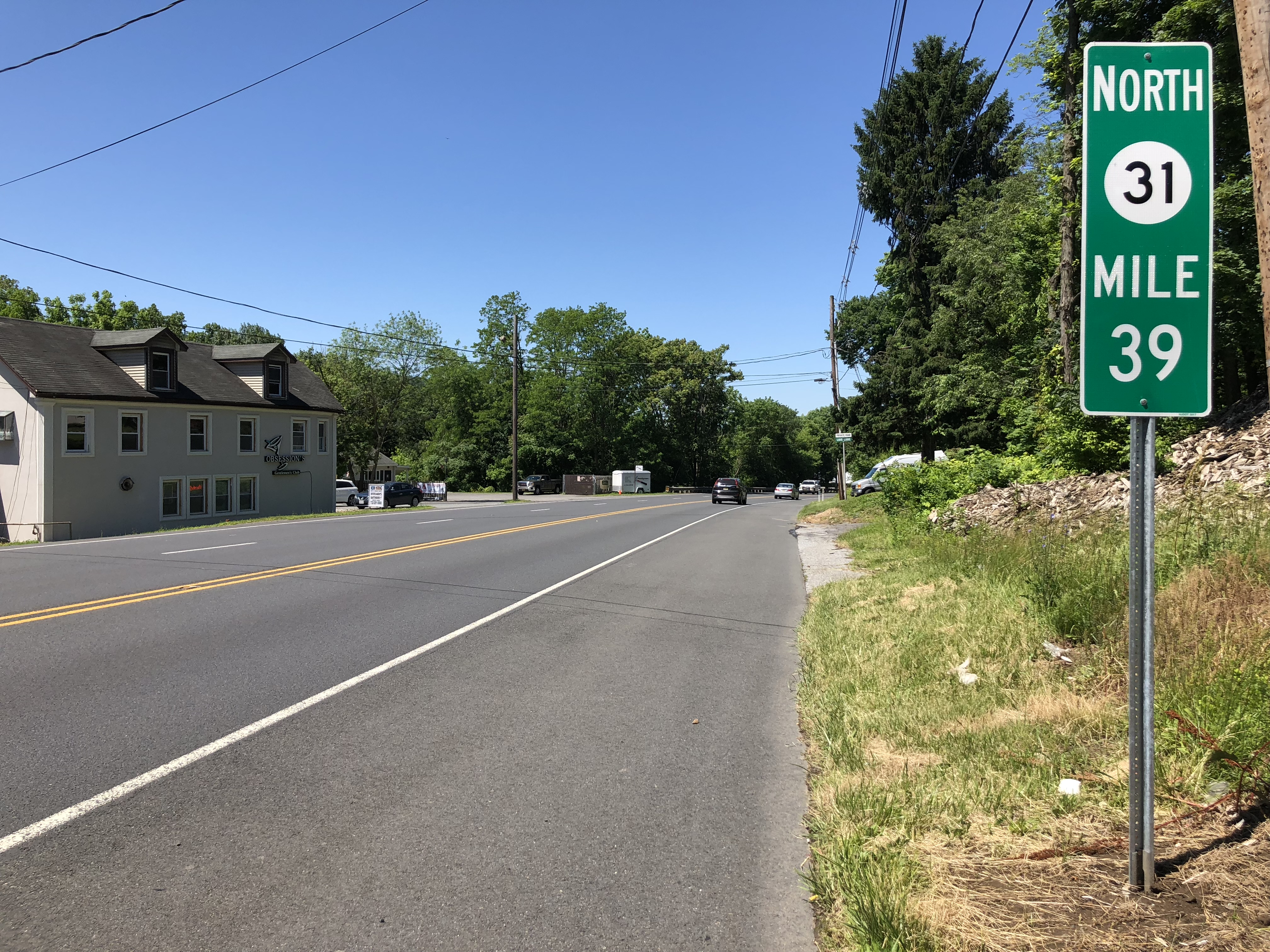 View north along New Jersey State Route 31 between Bowlby Street and Lois Lane in Hampton, Hunterdon County, New Jersey